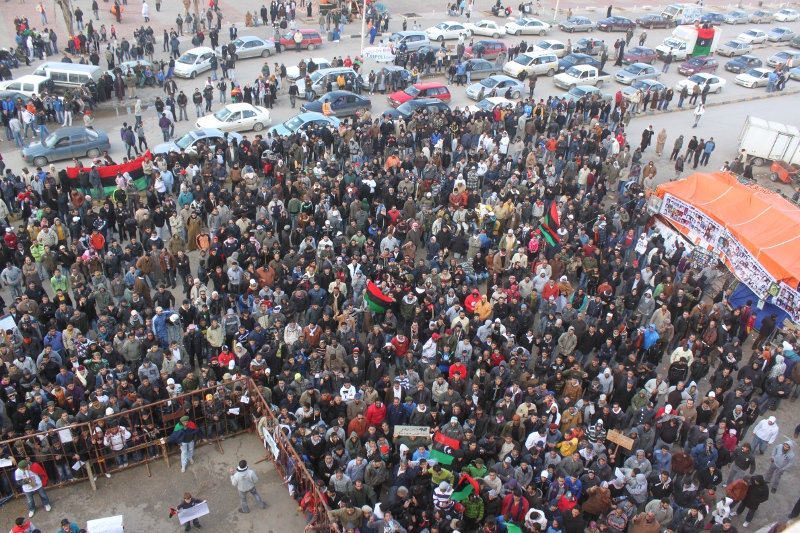 Large crowds gather outside the main Benghazi courthouse every day to chant slogans against the Gaddafi regime and honor those who have died in the uprising with funeral processions, and by bearing placards with their names and images.